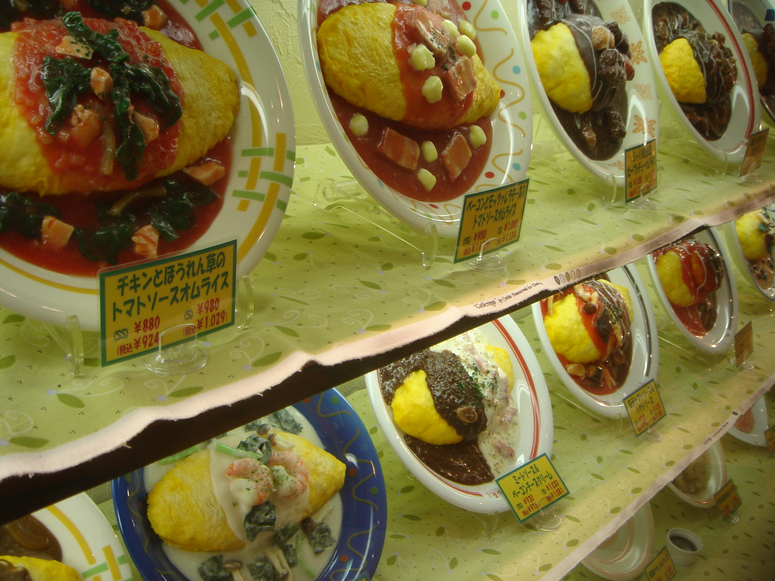 This restaurant has a menu where every single food item is Omlette Rice (蛋包飯)...DSC04105